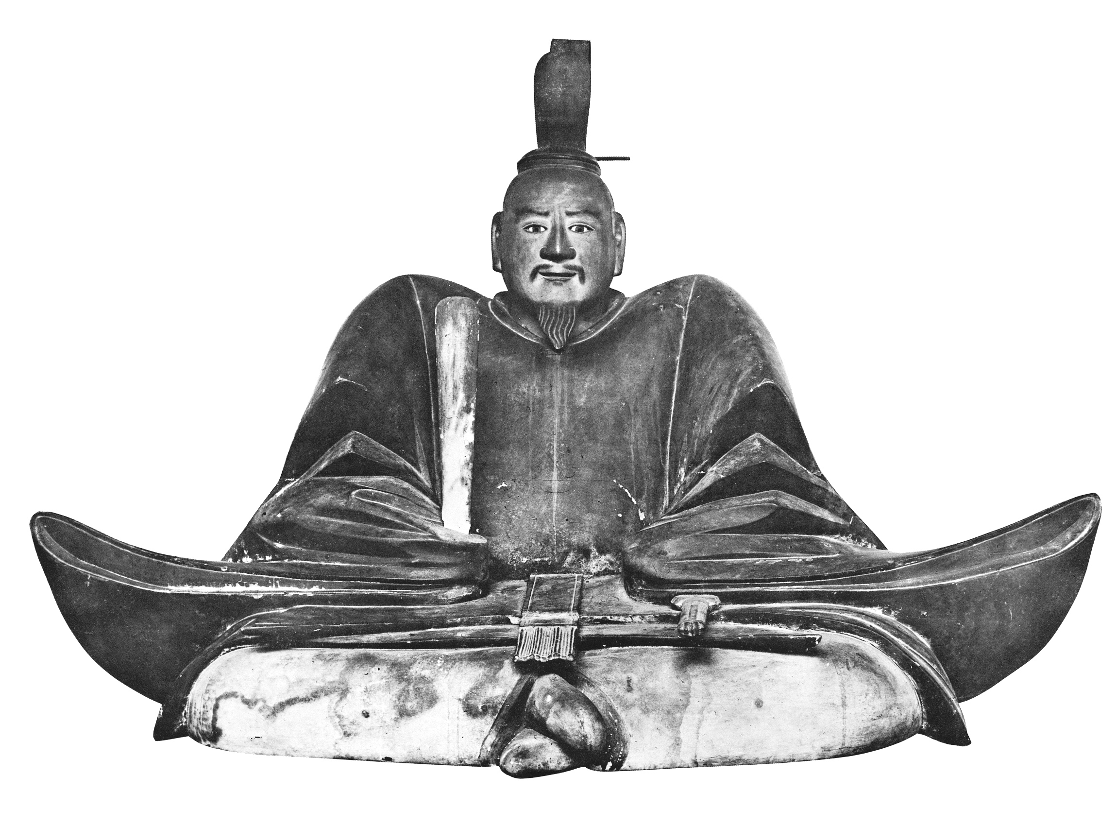 Seated figure of Ashikaga Yoshiaki